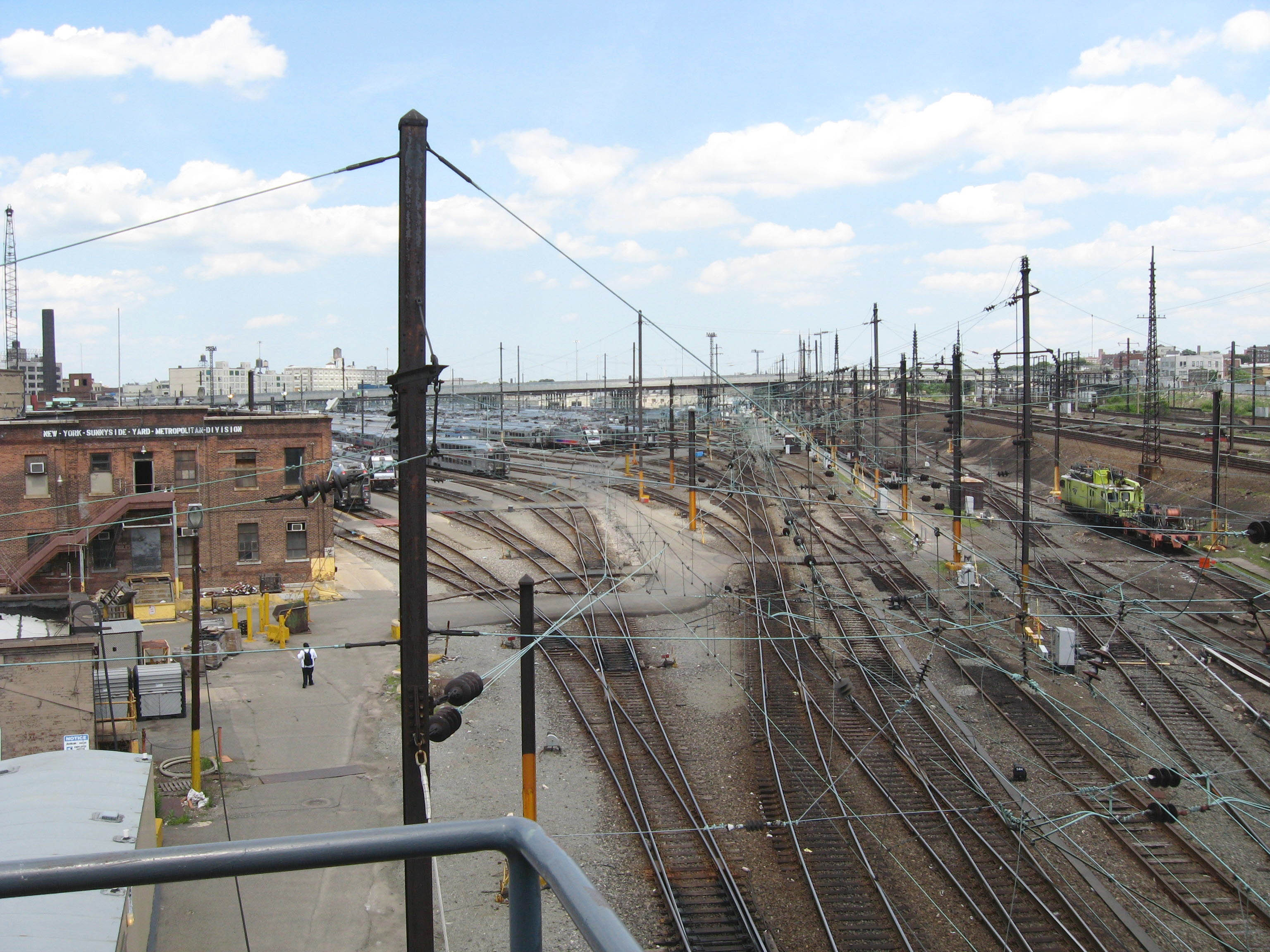 Looking east from Queens Boulevard overpass into southern part of Sunnyside Yards on a mostly sunny early afternoon. Honeywell Street viaduct in background.